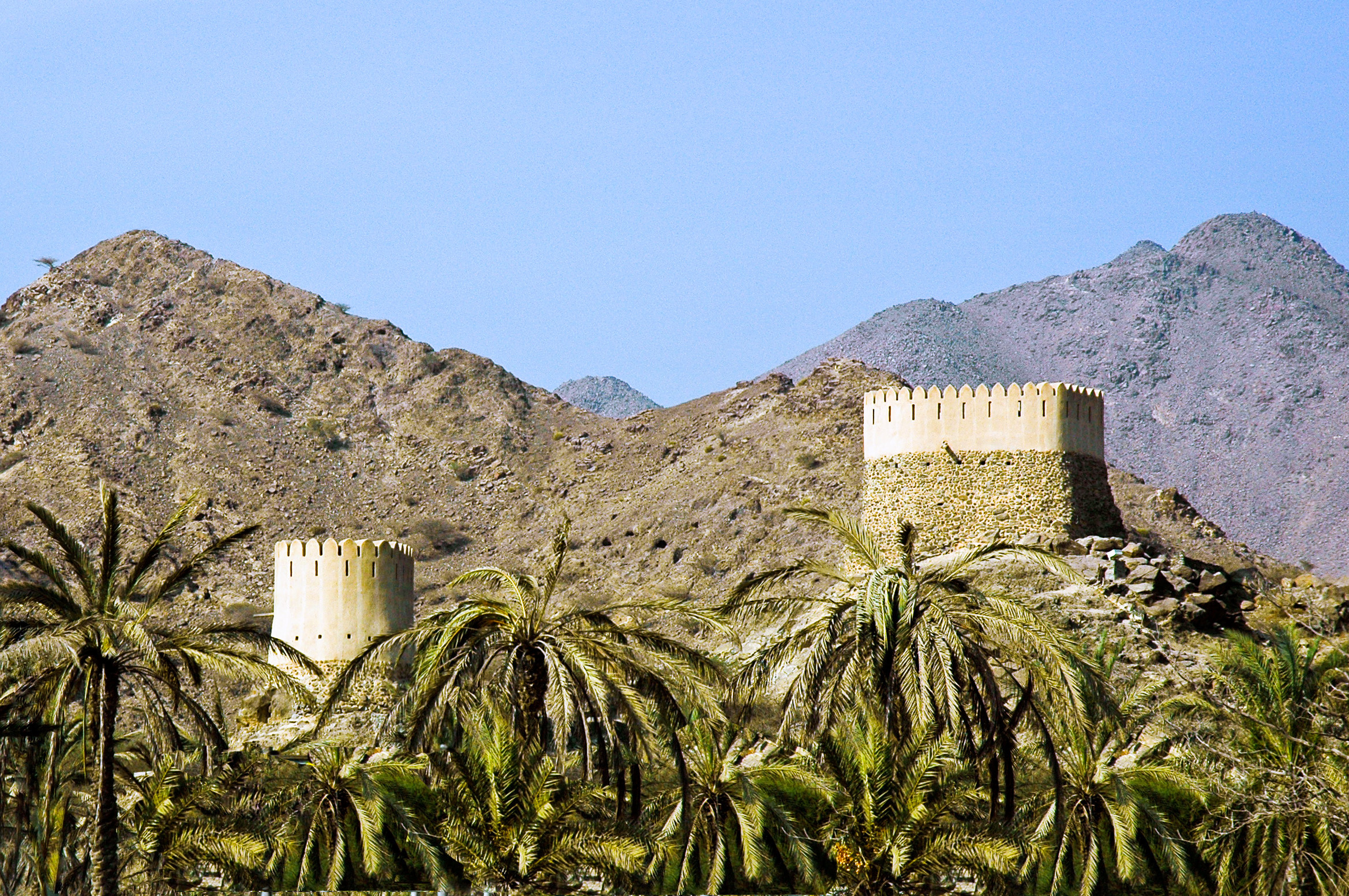 Towers near Al Badiyah Mosque, Fujairah, UAE